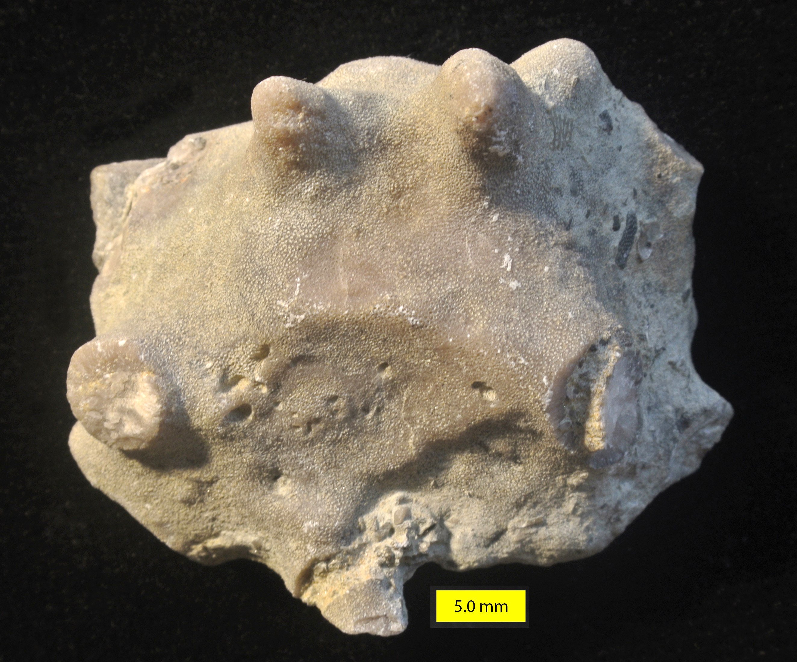 Trepostome bryozoan with borings; Whitewater Formation (Upper Ordovician, upper Katian), eastern Indiana.